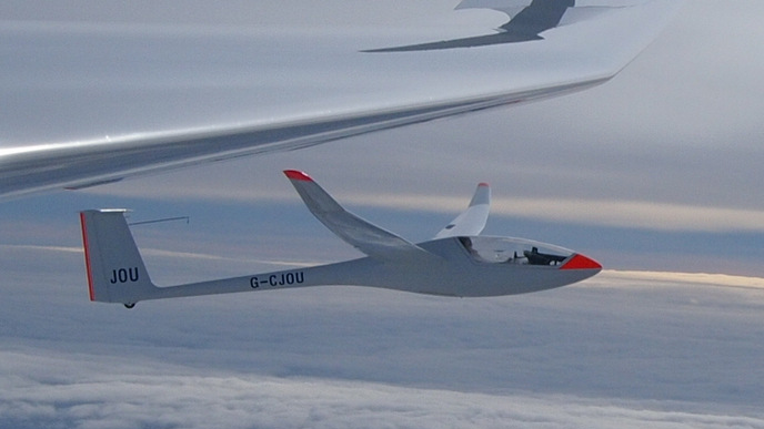 Glider Lak 17